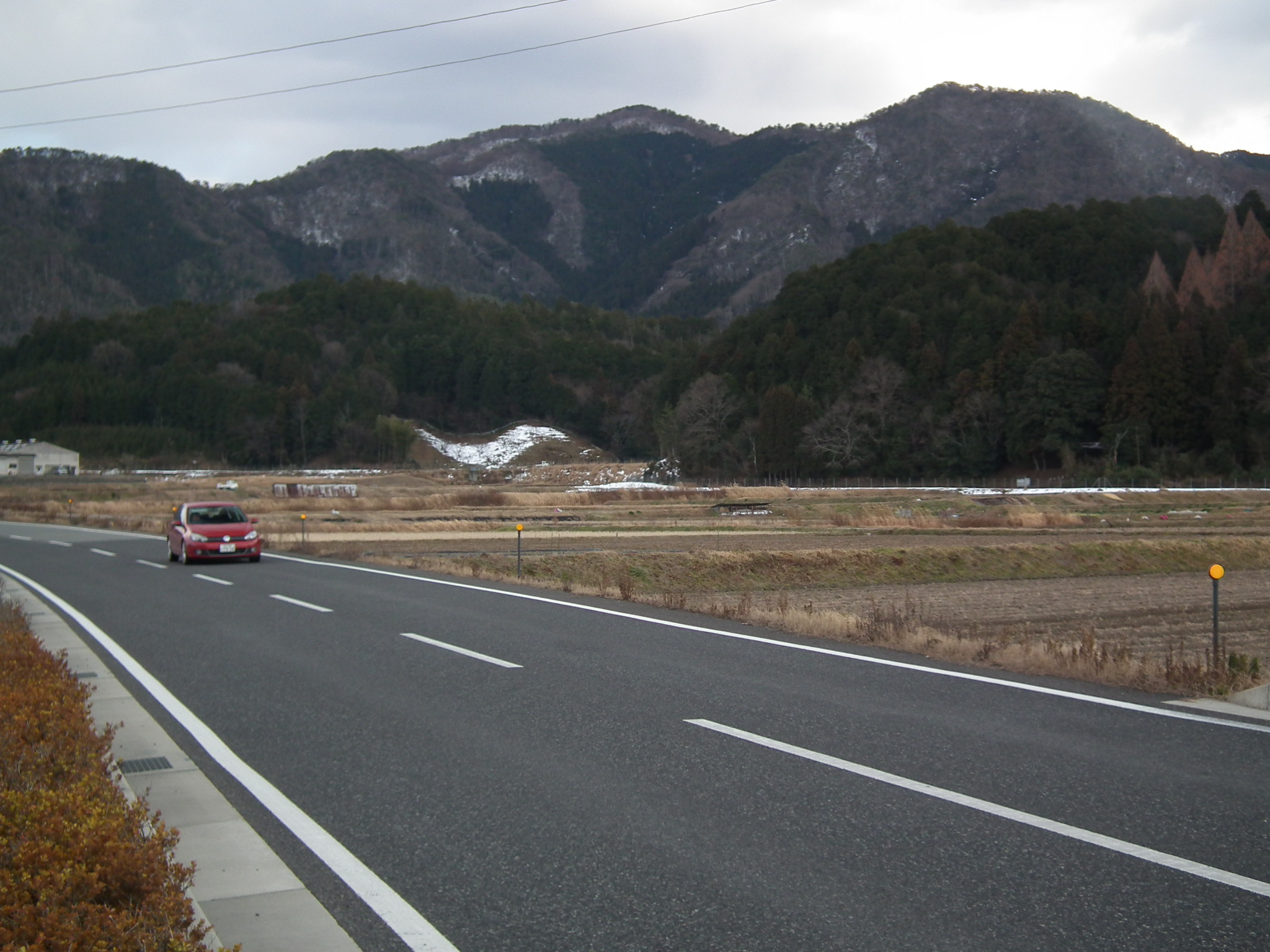 Mount Yajuro (Yajurogatake) seen from the northwest. Taken from National Route 372